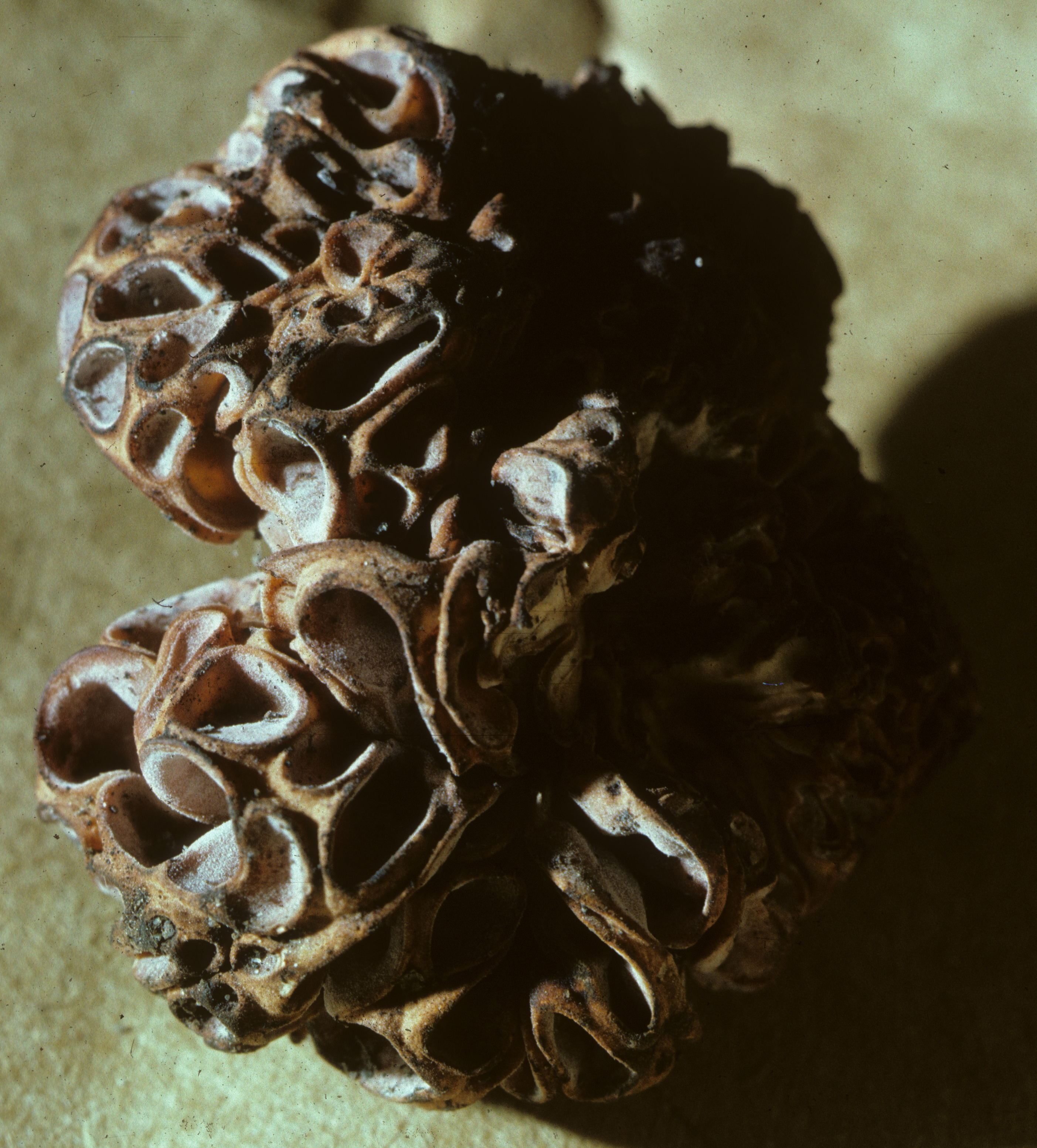 The ascomycete fungus Wynnea sparassoides. Specimen photographed in Beaver Kettle Farm, East Liverpool, Ohio, USA. "Notes: Mixed mesophytic forest."